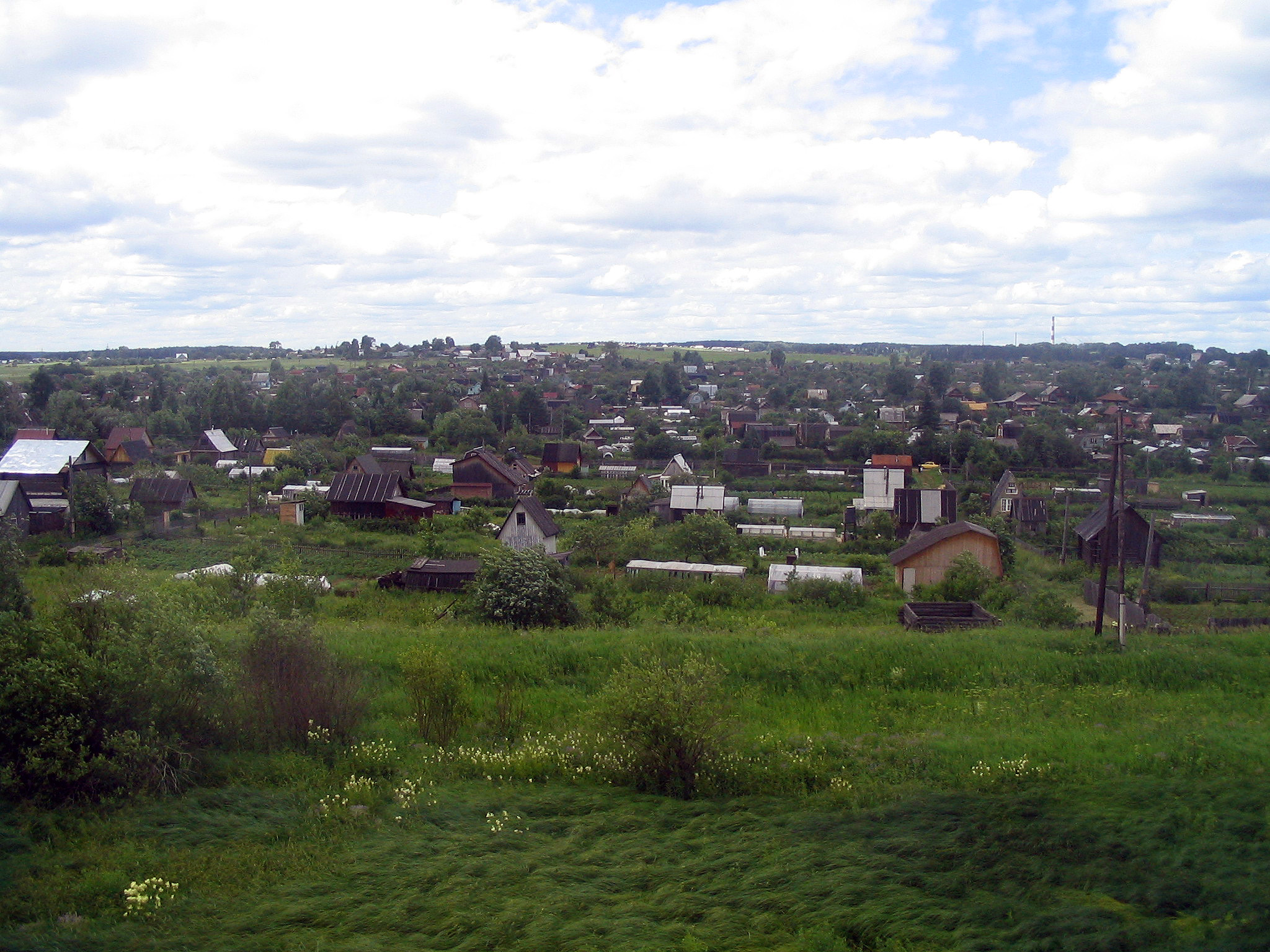 Dachas east of Kirov. Taken by me 7/06, released into public domain